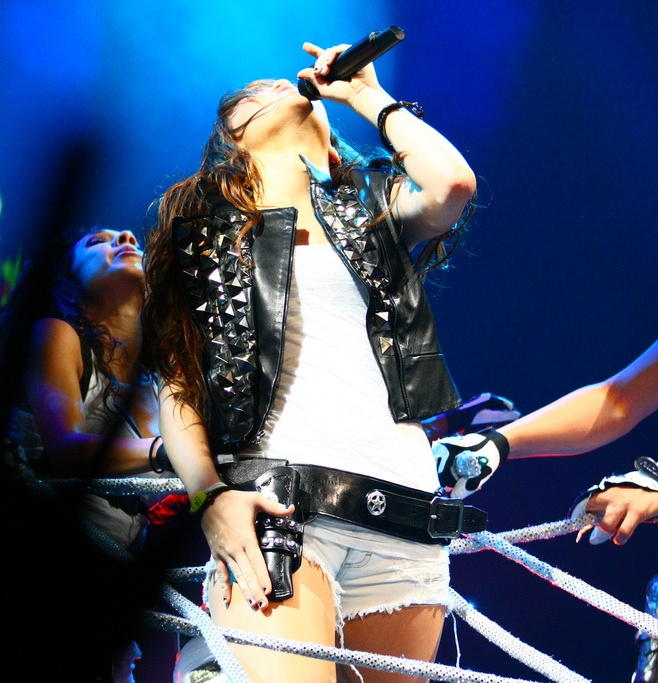 Miley Cyrus during the wonder world Concert in Detroit, Michigan.